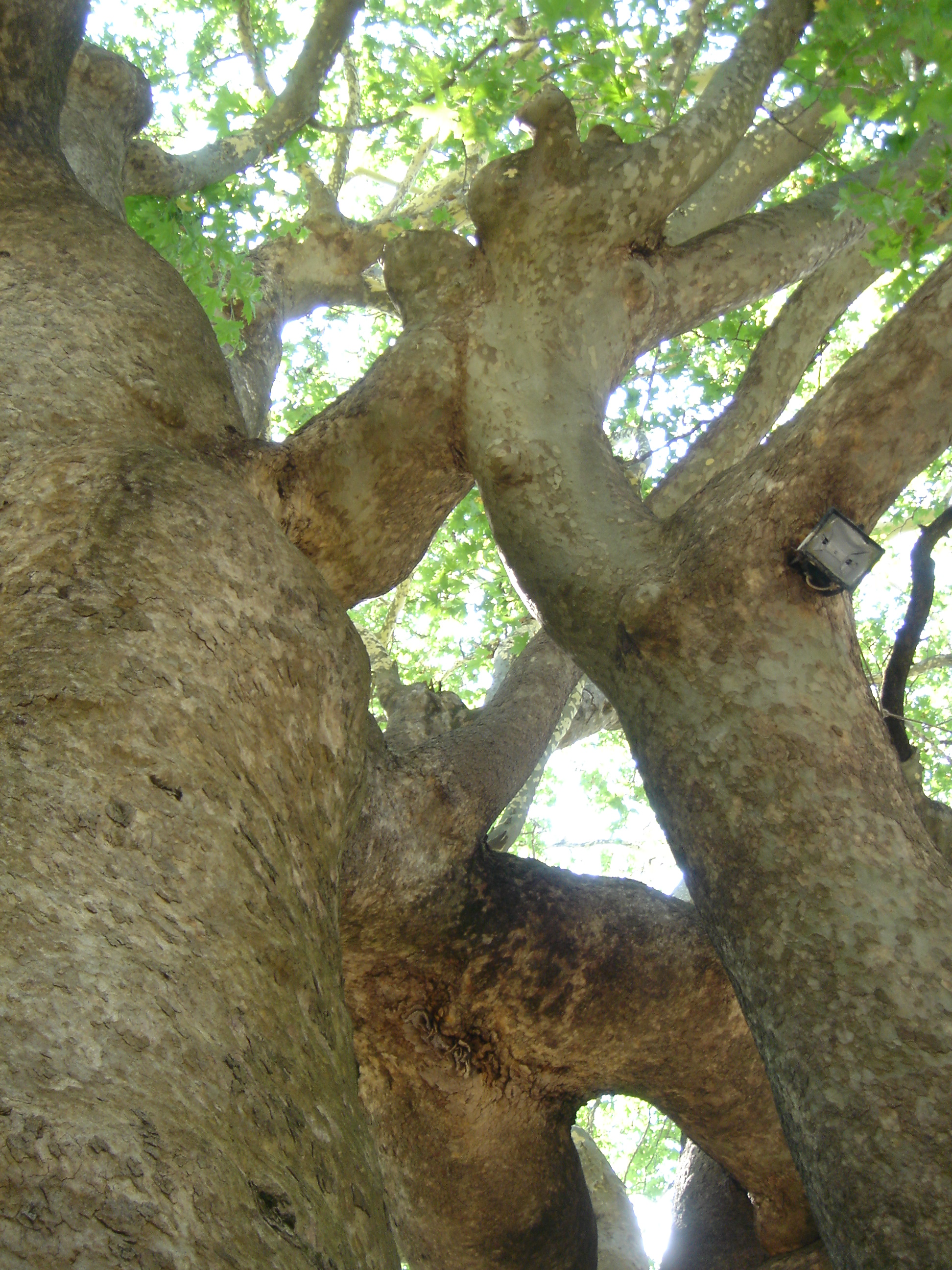 Platanus tree of Tsangarada, treetop